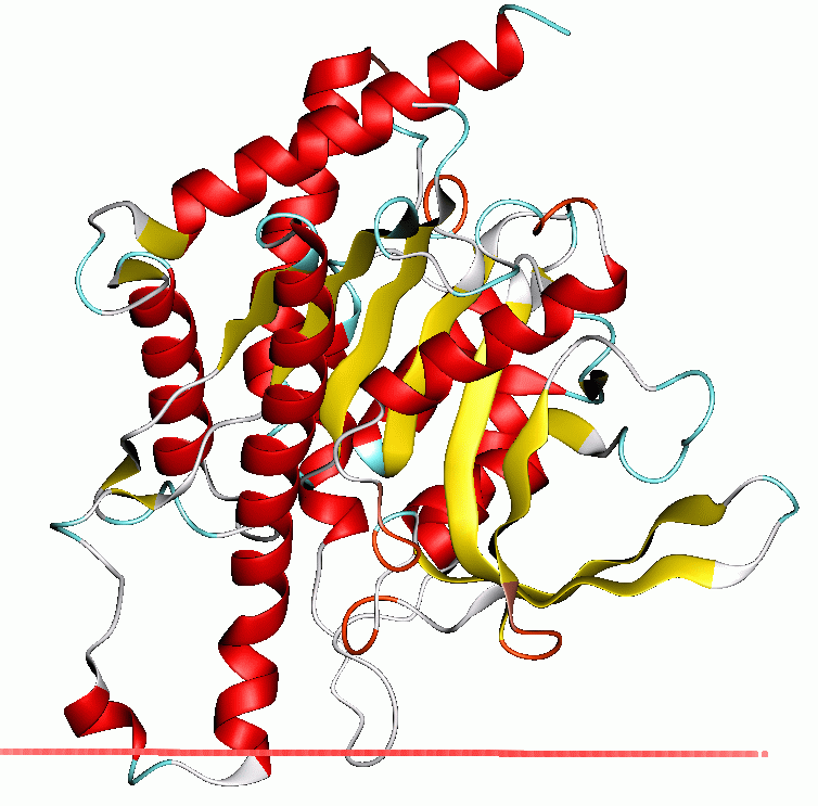 Protein image from OPM database